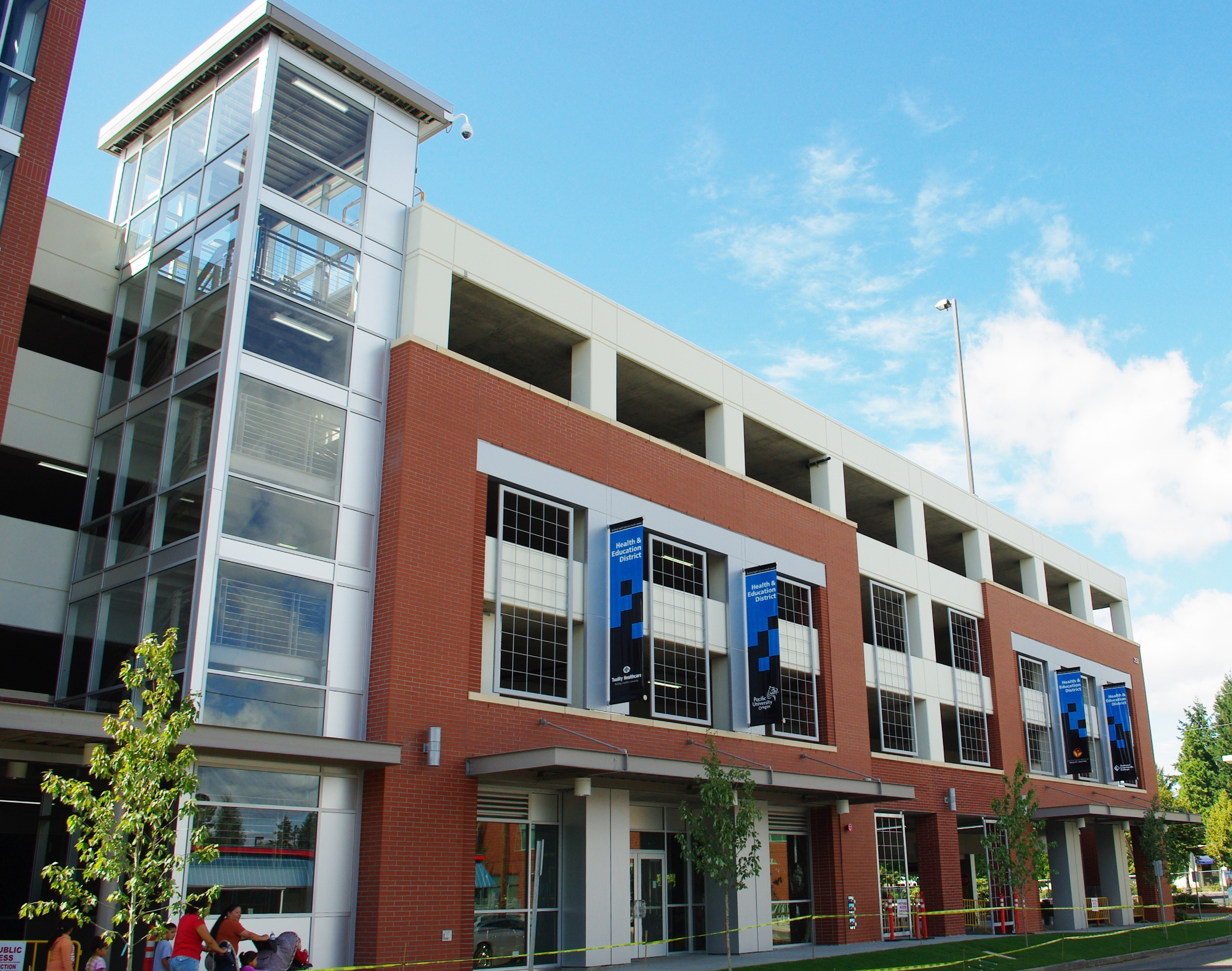 The Hillsboro Intermodal Transit Facility in September 2010.